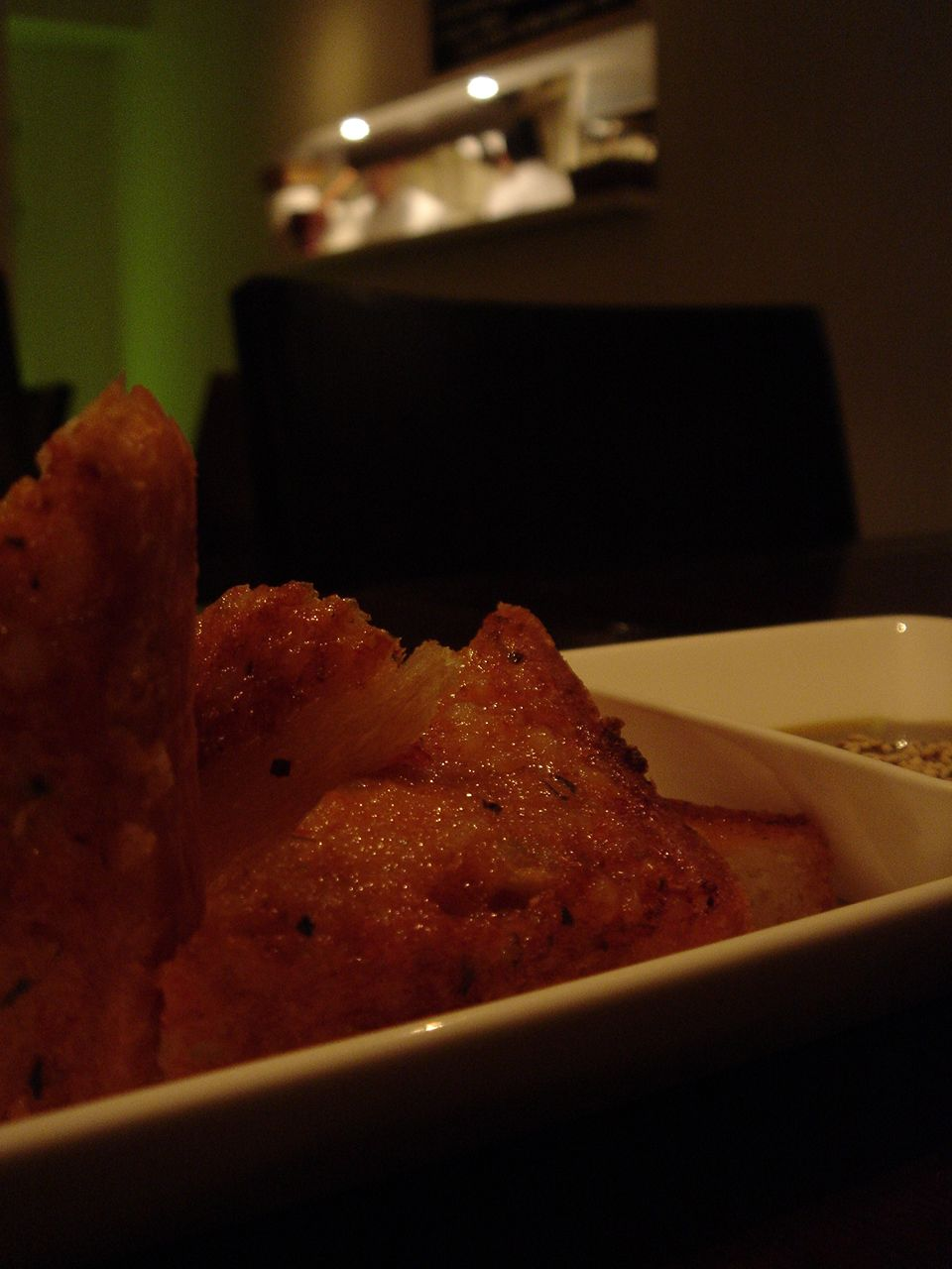 Deep fried shrimp mince toast at Coriander, Tokyo, Japan